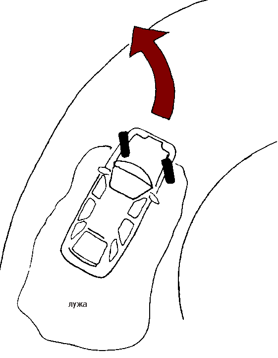 The most critical situation arises after hydroplaning (аquaplaning) if front wheels are turned.